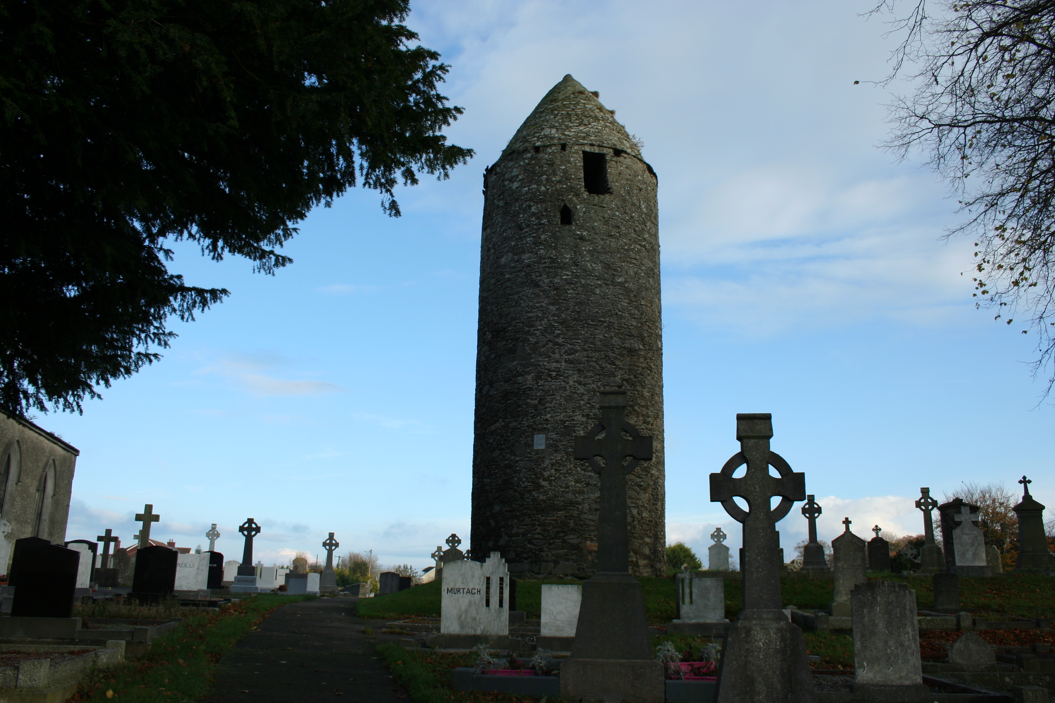 Irish Round Tower, Dromiskin, County Louth, Republic of Ireland